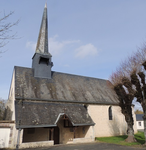 side view of Varize church with its porch and bell tower .